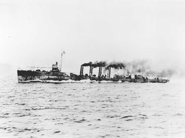 The U.S. Navy destroyer USS McCall (DD-28) underway at sea. She served with the U.S. Coast Guard as USCGC McCall (CG-14) from 1924 to 1930.